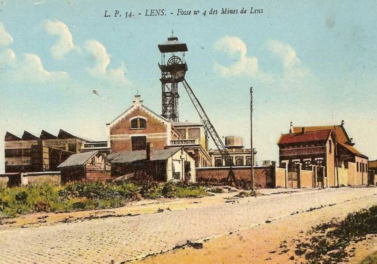 Coalpit n° 4, Compagnie des mines de Lens, Lens, Pas-de-Calais, France.